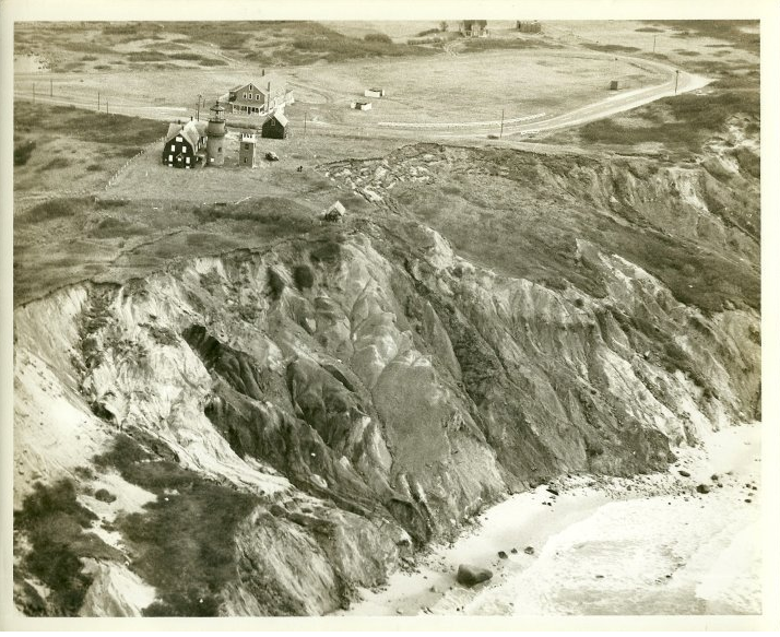 A 1958 United States Coast Guard aerial photograph of the Gay Head Lighthouse and surrounding environs taken from a northerly point-of-view. By 1958, the Gay Head Light was no longer open to public access due to automation with electrical technology c. 1954. When this photograph was taken, the Fresnel lens had already been replaced with an electrical signal. The Fresnel lens was relocated to the Dukes County Historical Society's grounds in Edgartown. A few years after this photograph, the Keeper's house; the nearby square, brick, WWII observation tower; the barn; and the small guest house near the cliffs were razed. Only the lighthouse and the World War II bunker were not destroyed. Not clearly visible in this photo is the WWII bunker that sits on the clay cliffs just below the so-called guest house. Today, the WWII bunker sits below the cliffs in the ocean's intertidal zone.